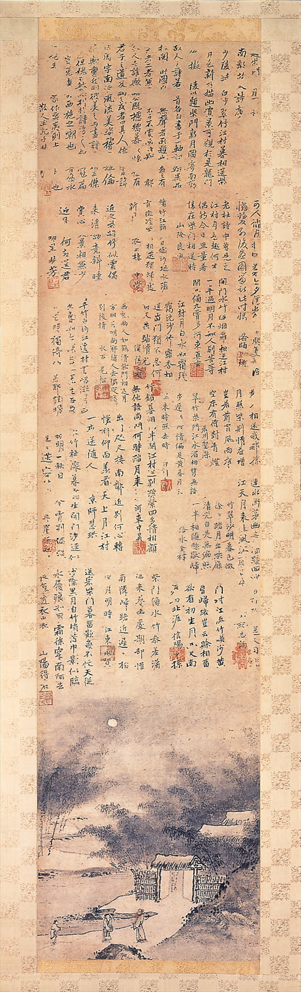 Hanging scroll. Ink on paper. 129.2 x 31.0cm. National Treasure.